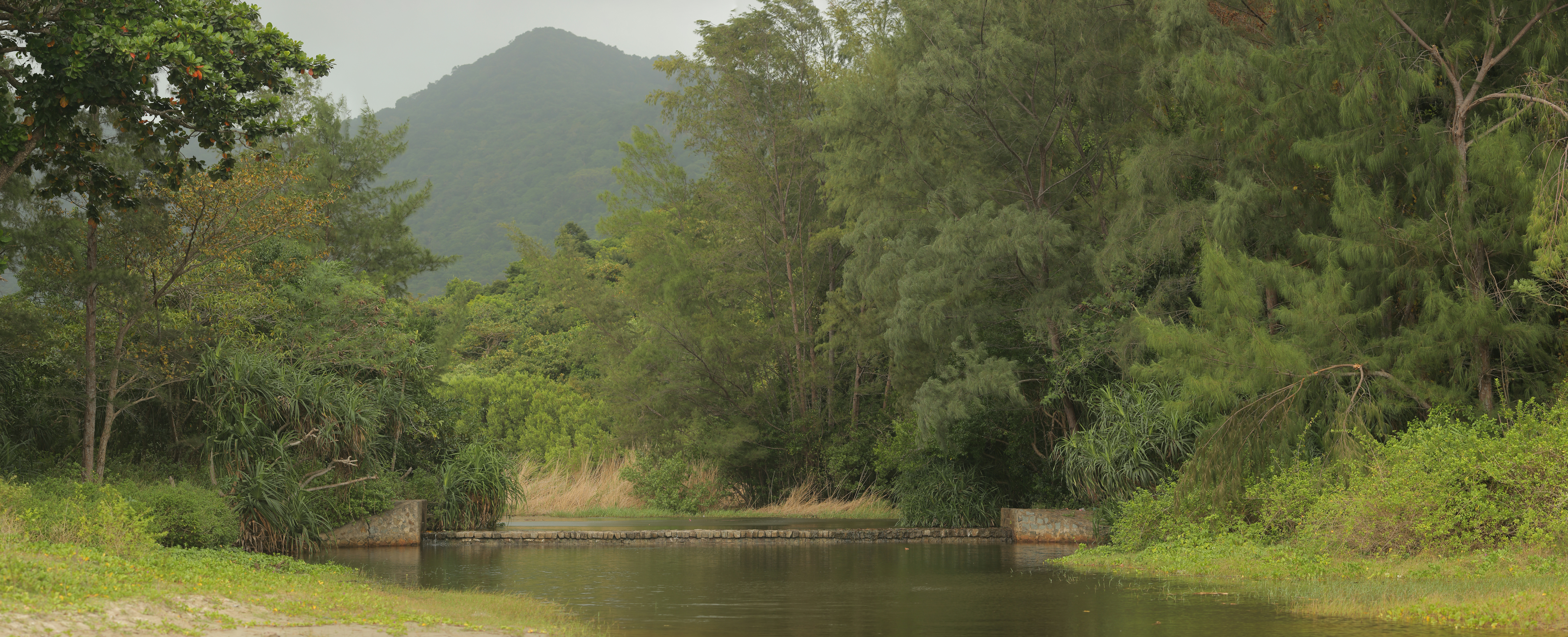 Côn Đảo national park at Côn Sơn Island, the largest island of Côn Đảo archipelago, Vietnam.